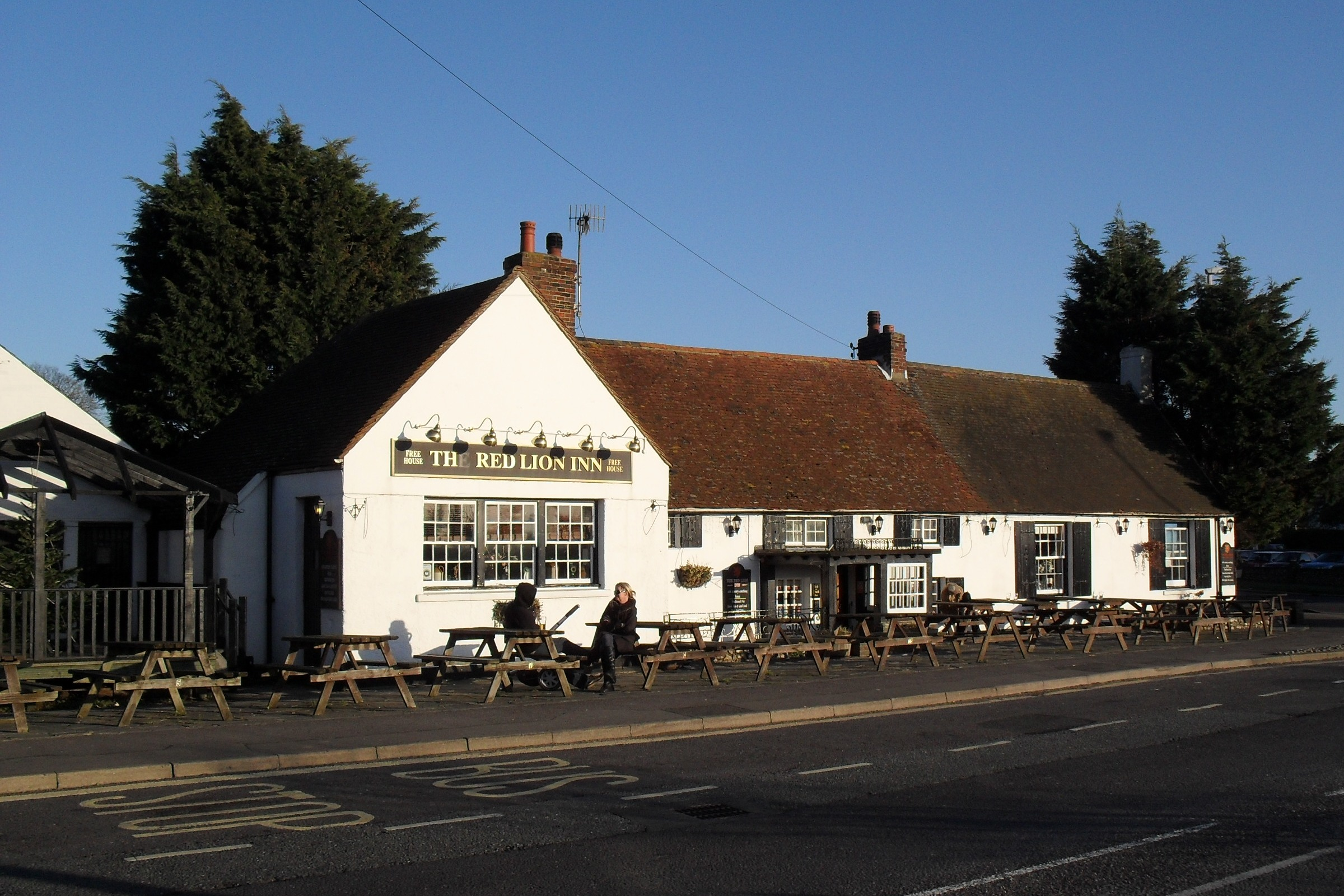 Red Lion Inn, Old Shoreham Road, Old Shoreham, Shoreham-by-Sea, Adur, West Sussex, England. A 16th-century coaching inn. Listed at Grade II by English Heritage (IoE Code 297305)